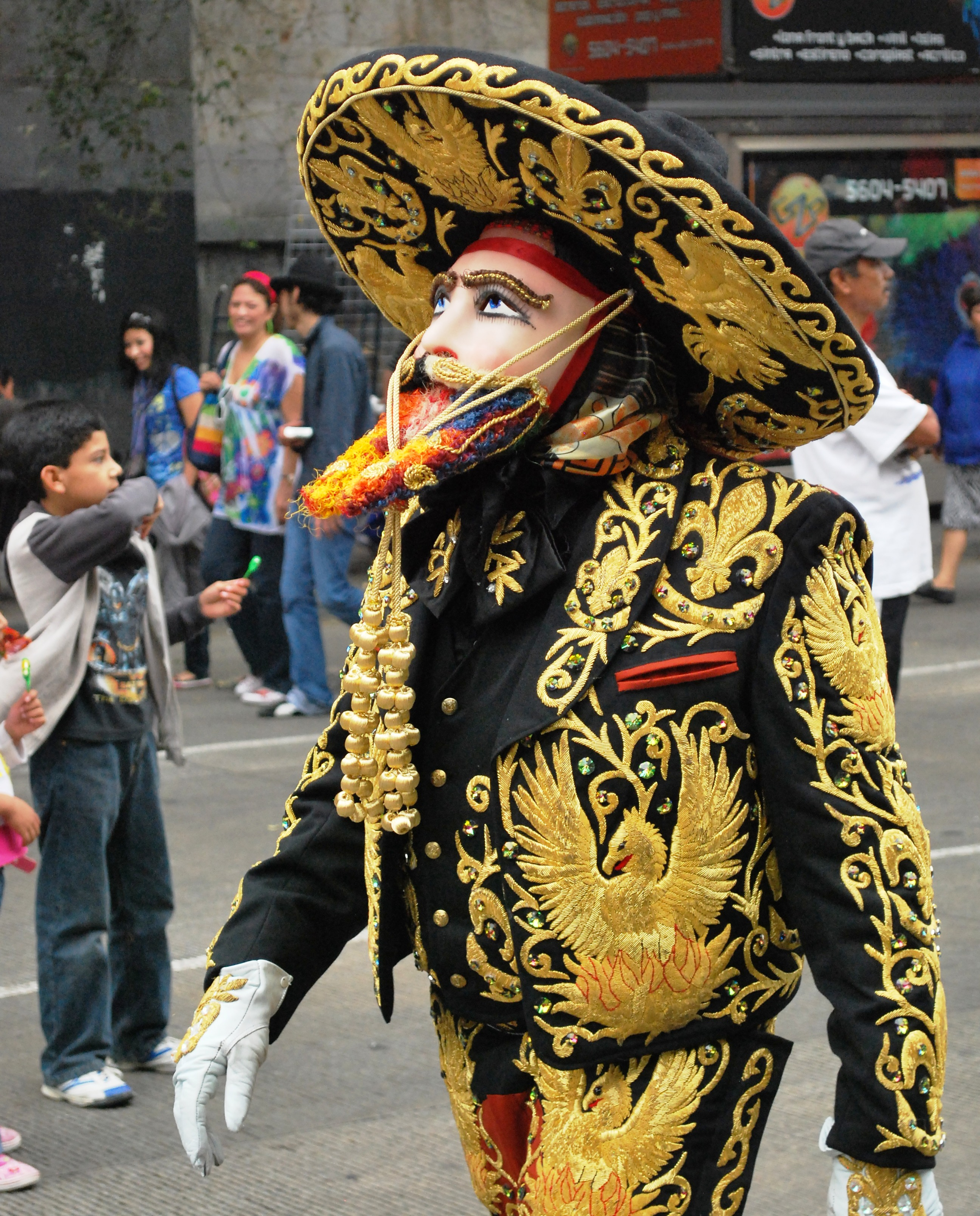 Close up of one of the costumed dancers of Aguas Vivas at the Alebrije Parade